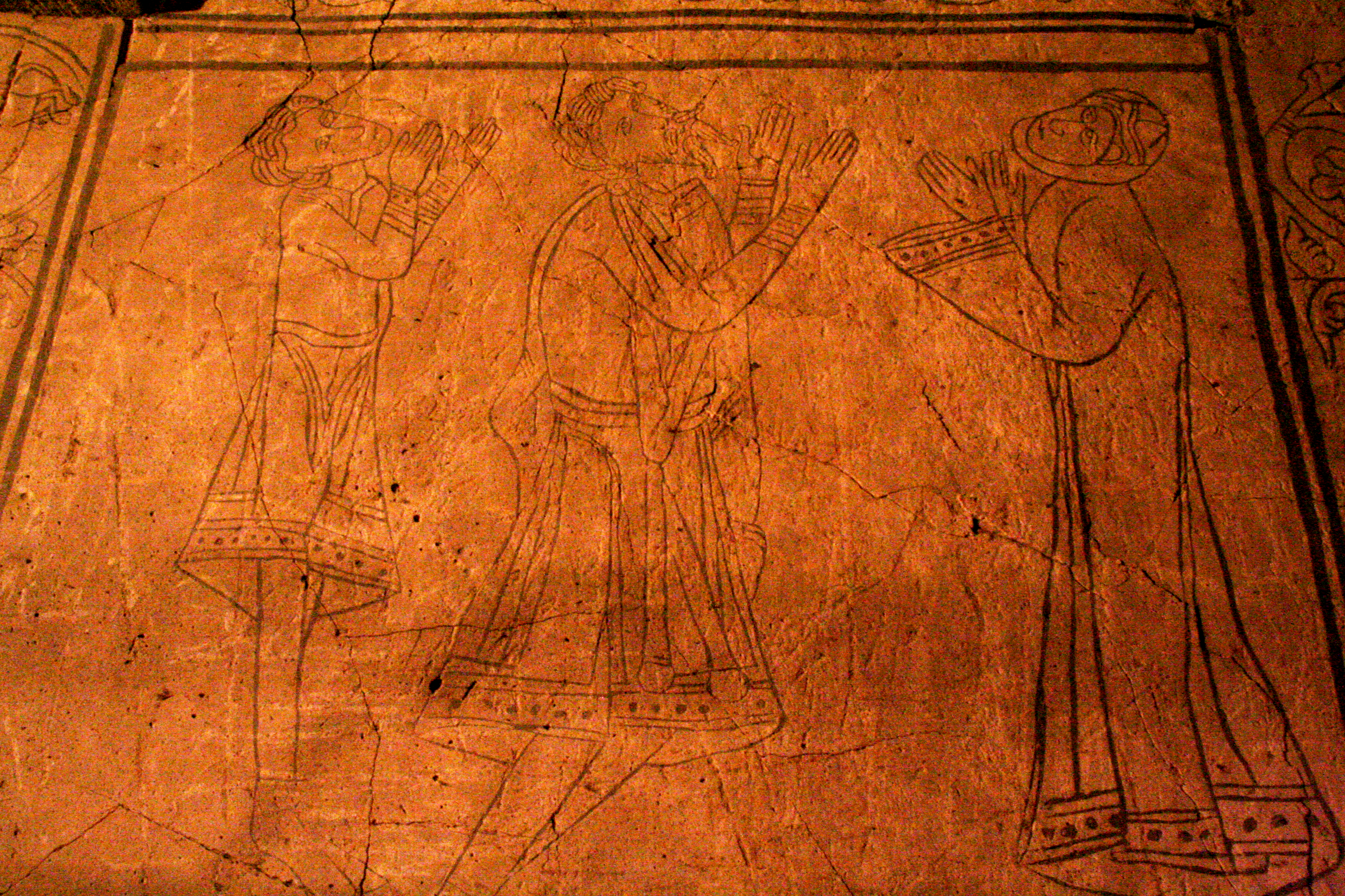 "Slab of Orants" - dated 1175, floor of the 12 cent. church in Wiślica, Poland, above which Collegiate church in Wiślica now stands. Lower panel, probably depicting duke Casimir II the Just in the middle, his son Boleslaw and wife Helena